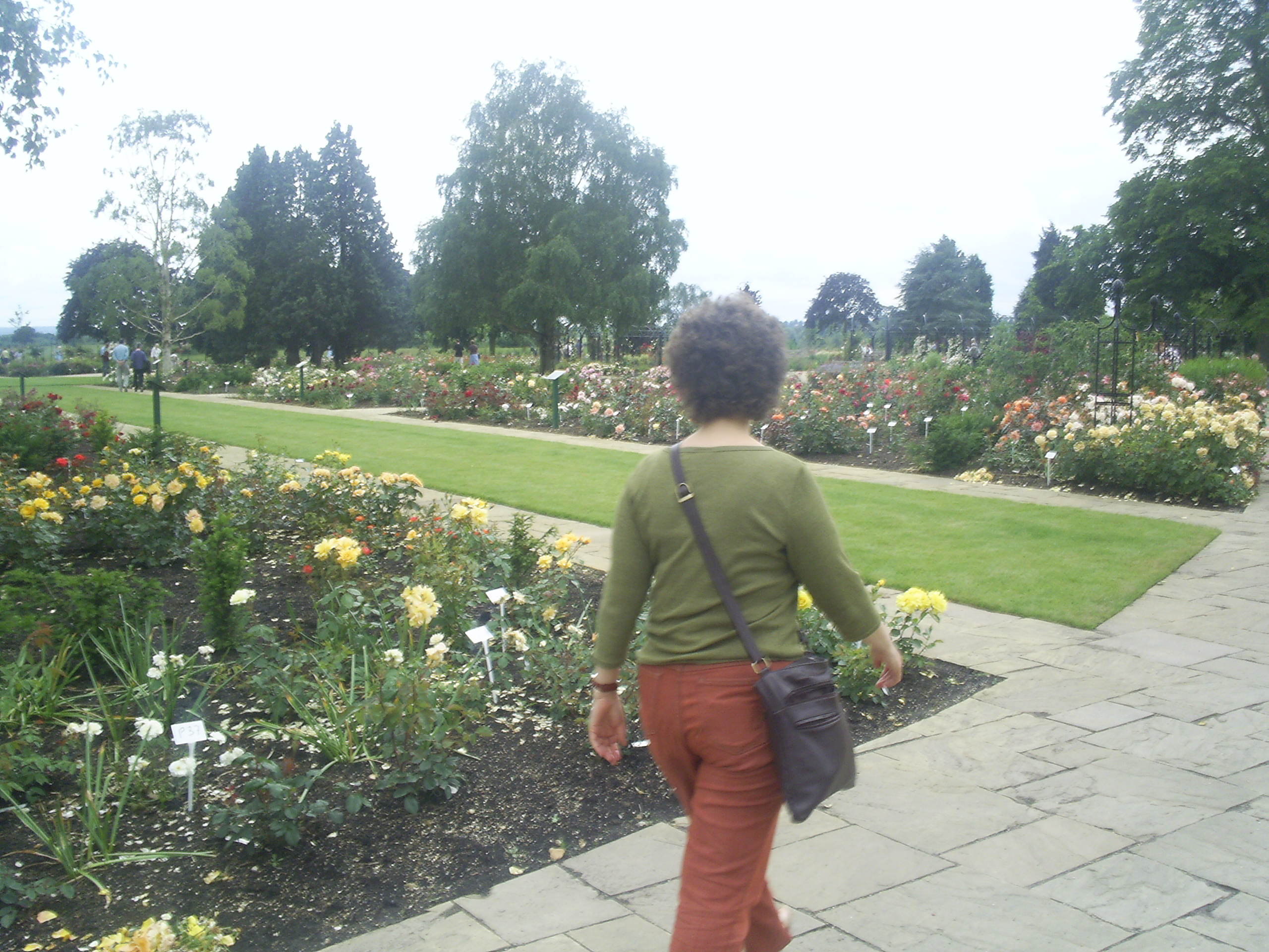 Gardens of the Rose, Hertfordshire. Taken a week after reopening.